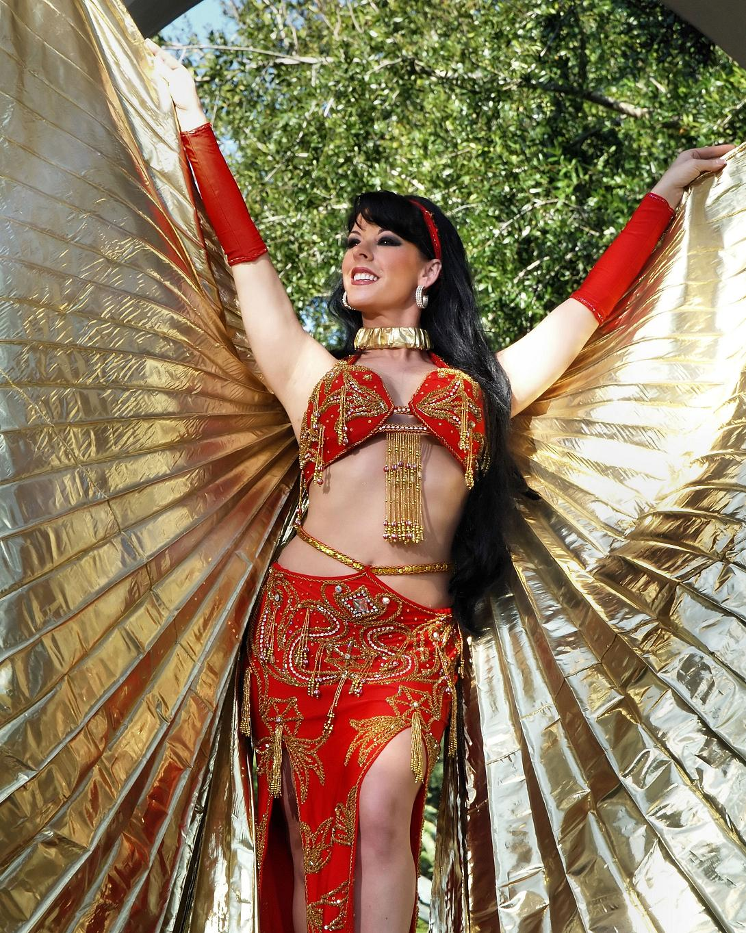 Suspira, an American belly dancer.